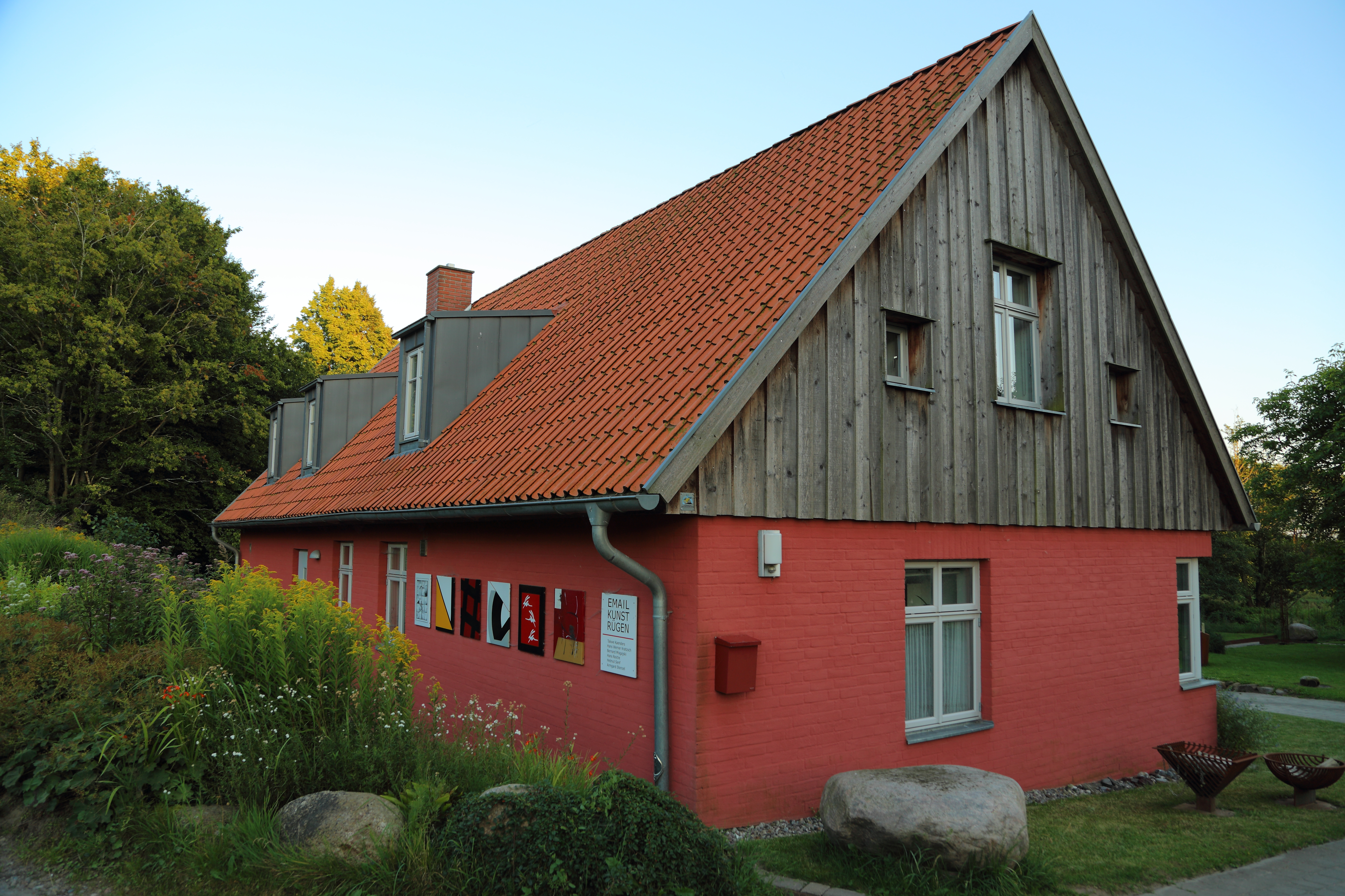 The Kunstort Alte Wassermühle in Wreechen, a borough of Putbus, Landkreis Vorpommern-Rügen, Mecklenburg-Vorpommern, Germany. The former house, a remaining building of the former water mill, was destroyed by a fire in 2003.